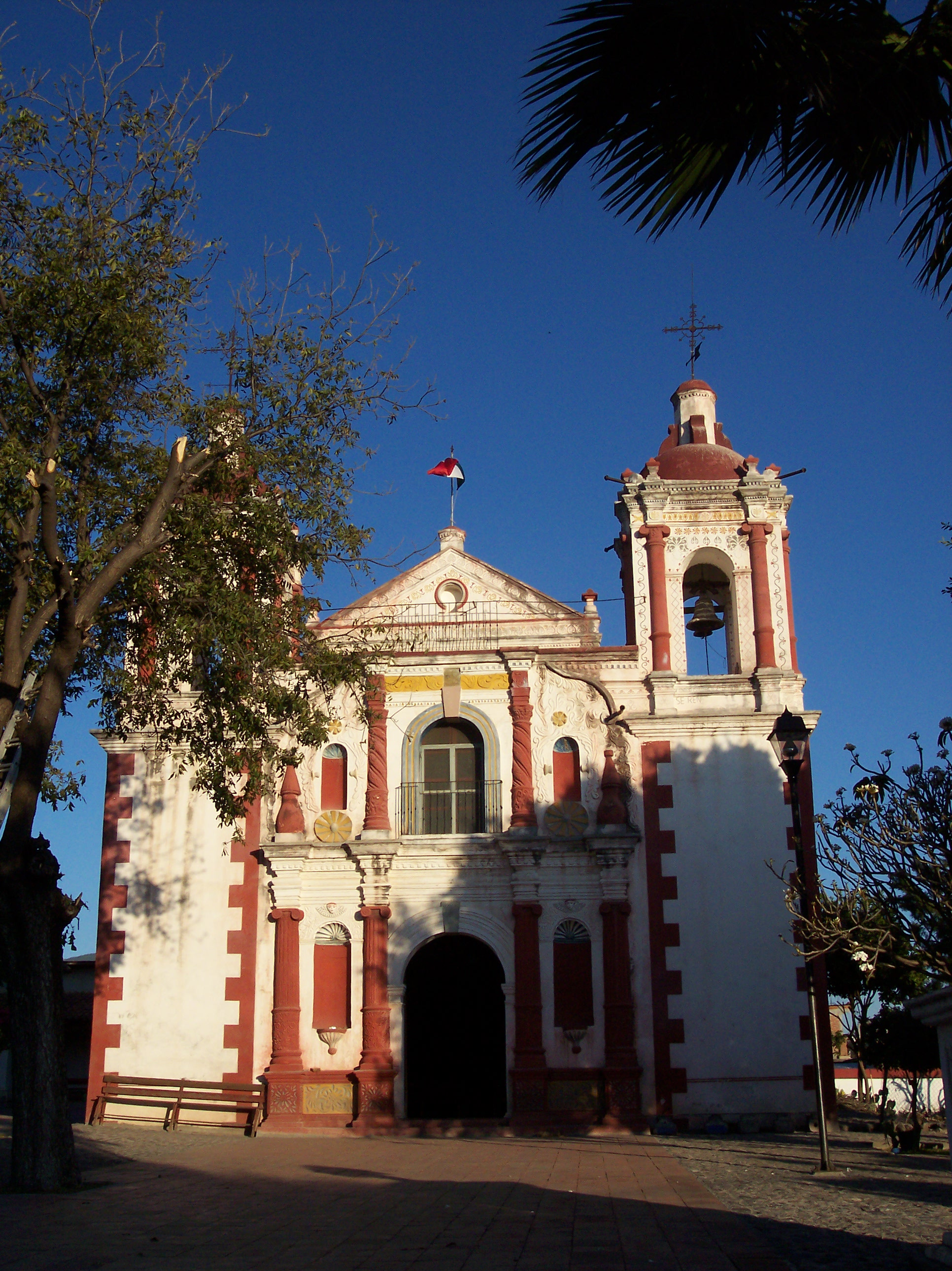 Main church of the Santa Ana del Valle Town. Located in: Santa Ana del Valle, Oaxaca. Mexico.